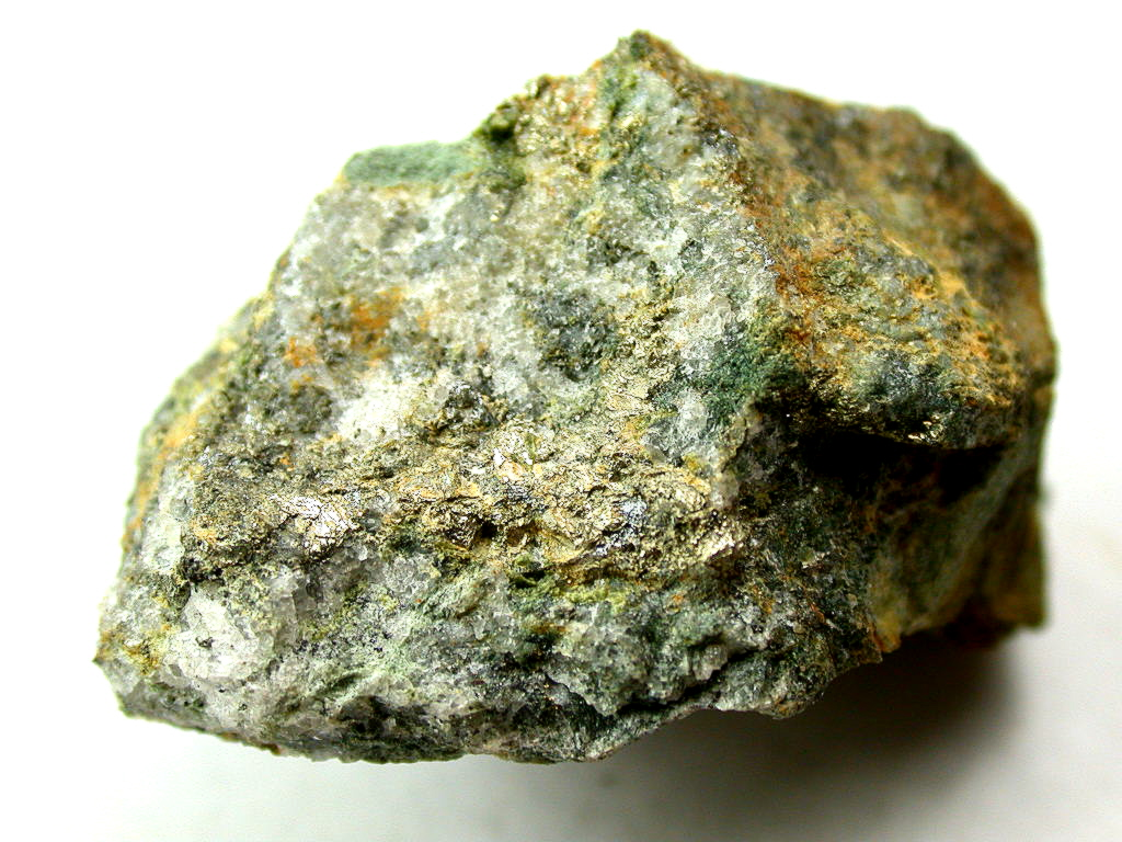 Kobellite Locality: Deer Park Mine, Rossland, Trail Creek Mining Division, British Columbia, Canada Original description: A 4.2 by 2.8 cms matrix piece with areas of massive metallic steel grey Kobellite and some Chalcopyrite. JSS specimen and photo. Ex Bart Cannon specimen.